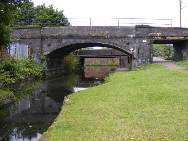 Canal Bridges, Horseley Fields The Wyrley & Essington Canal passes under the railway and towpath bridges to reach the Birmingham Canal.